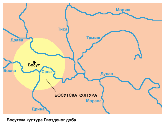 Iron Age Bosut culture.